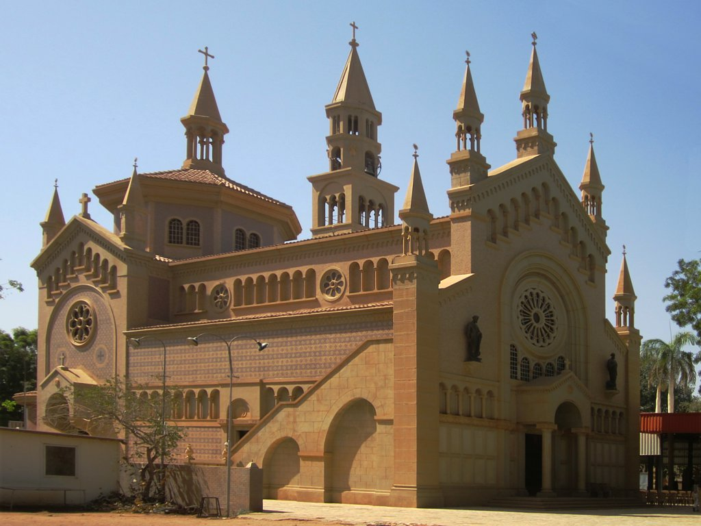 The Catholic Archdiocese of Khartoum-Sudan is based at St. Matthew's Cathedral, across the street from Blue Nile.